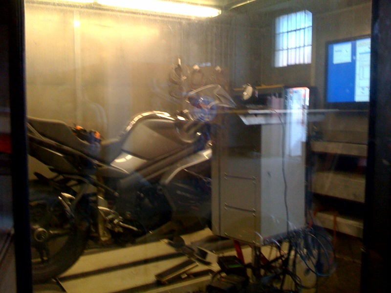 My 2008 Sprint ST on the dyno at Ducati Seattle.